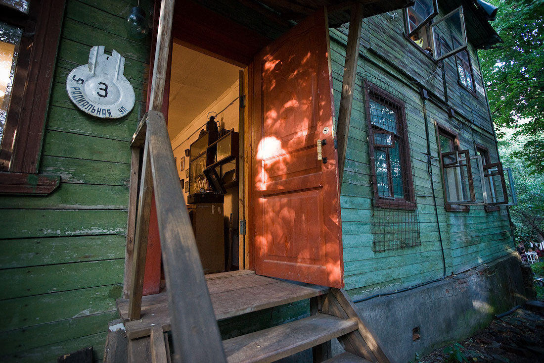 The Muromtsev Dacha (1965 - 2010). Moscow, Pyataya Radialnaya ('Fifth Radial'), 3